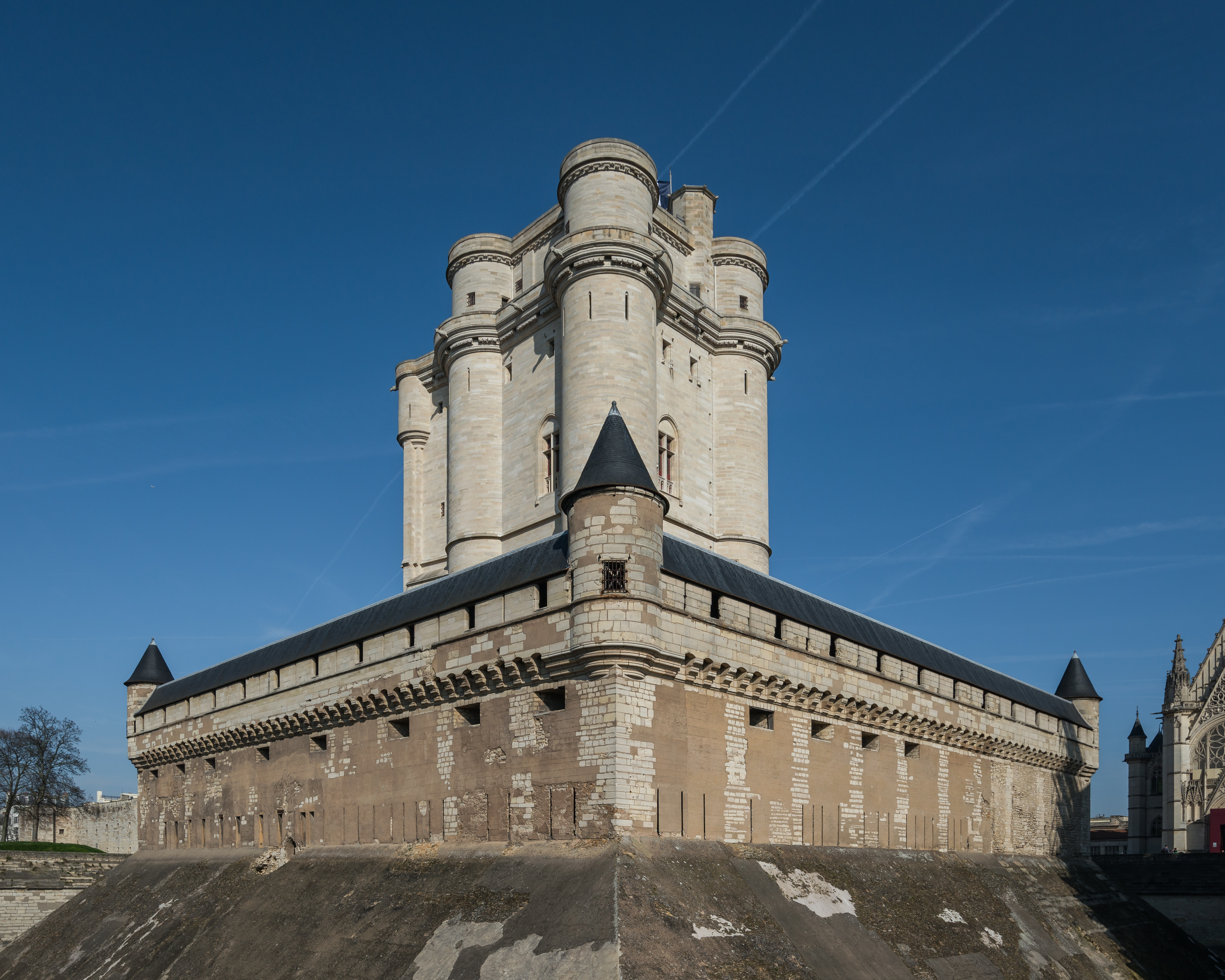 The Keep of the Château de Vincennes as seen from south-west, outside the castle